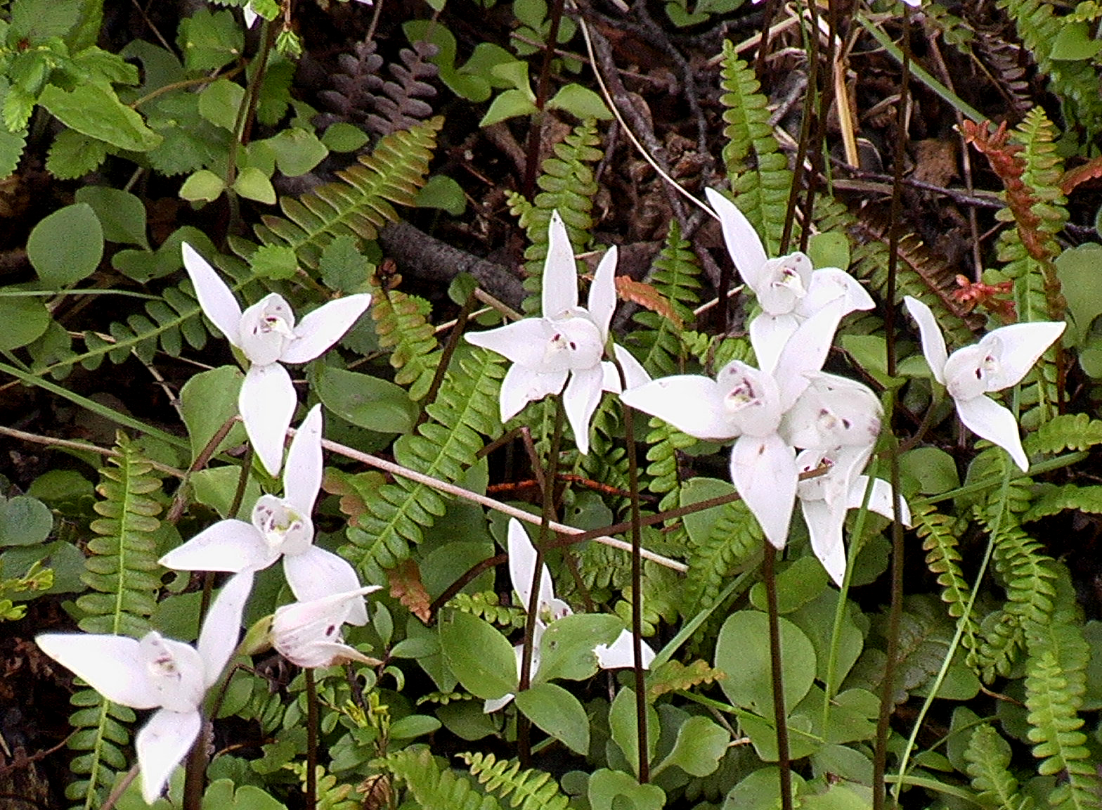 Codonorchis lessonii, Tierra del Fuego, near Ushuaia, Argentina. Photographed on 3 January 2004